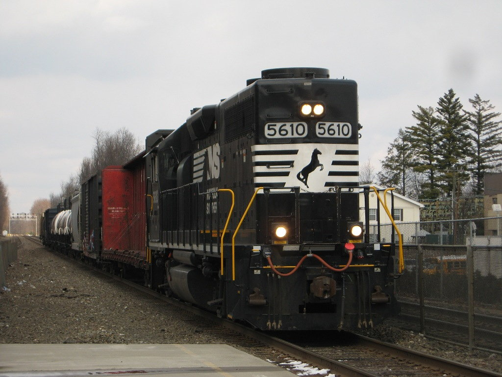 Norfolk Southern GP38-2 #5610 operates hood-end forward in Ridgewood, New Jersey, pulling freight to Secaucus, New Jersey, along New Jersey Transit-owned trackage.